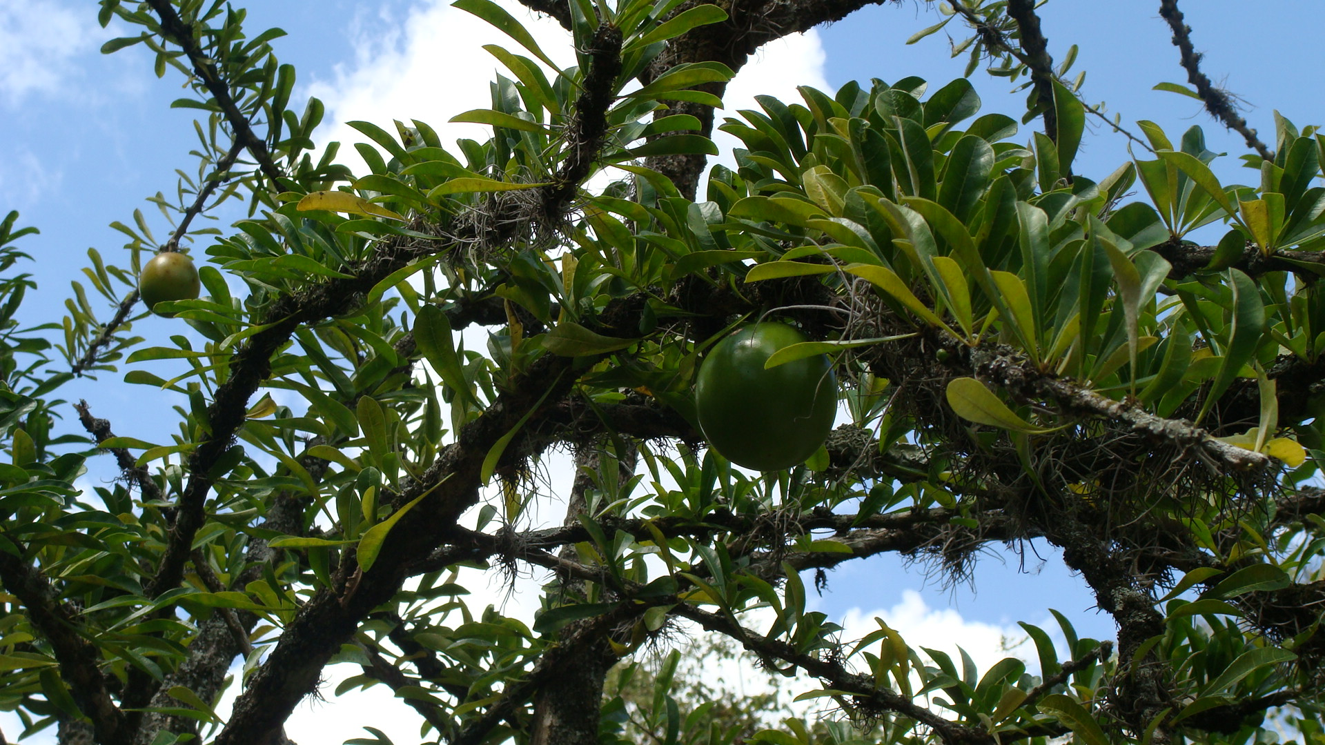 Crescentia cujete, a tree from the Intertropical Zone